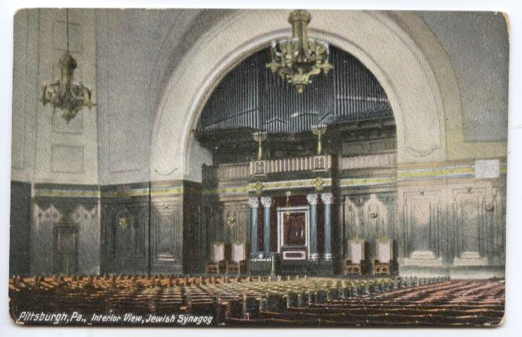 Rodef Shalom Temple of Pittsburgh. The Arch.